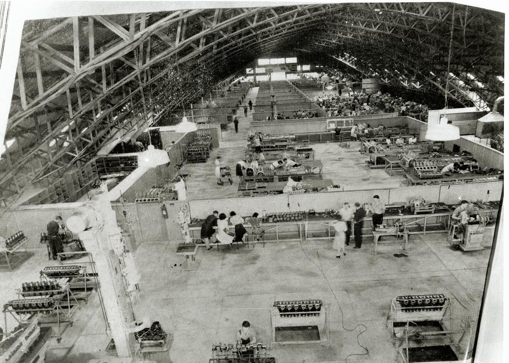 Interior view of GMH Allison Overhaul Assembly Plant igloo located on Sandgate Road Albion Brisbane during World War Two